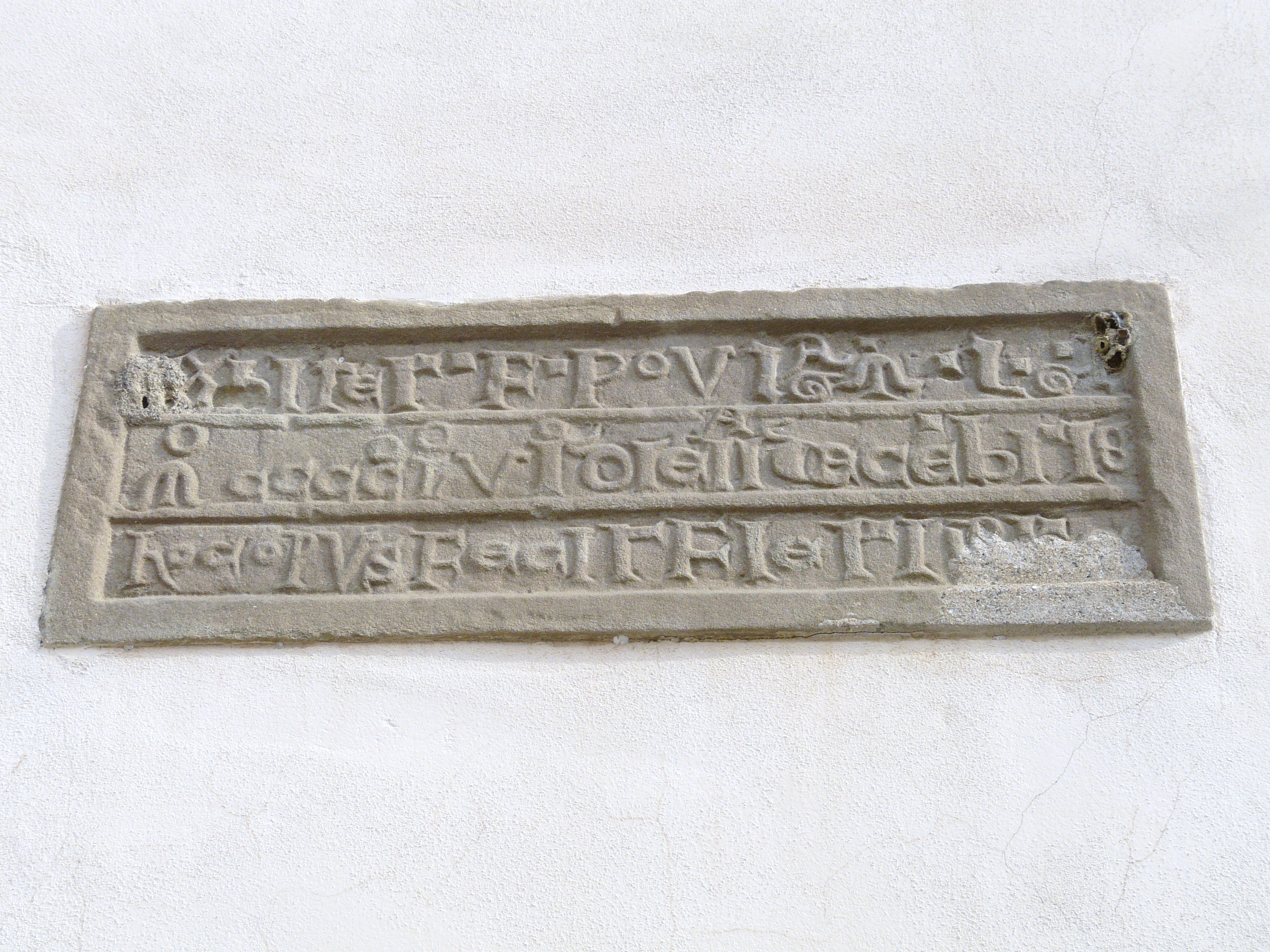 Old Grabin writing on the Church of the "Immaculate Conception" in Cosseria